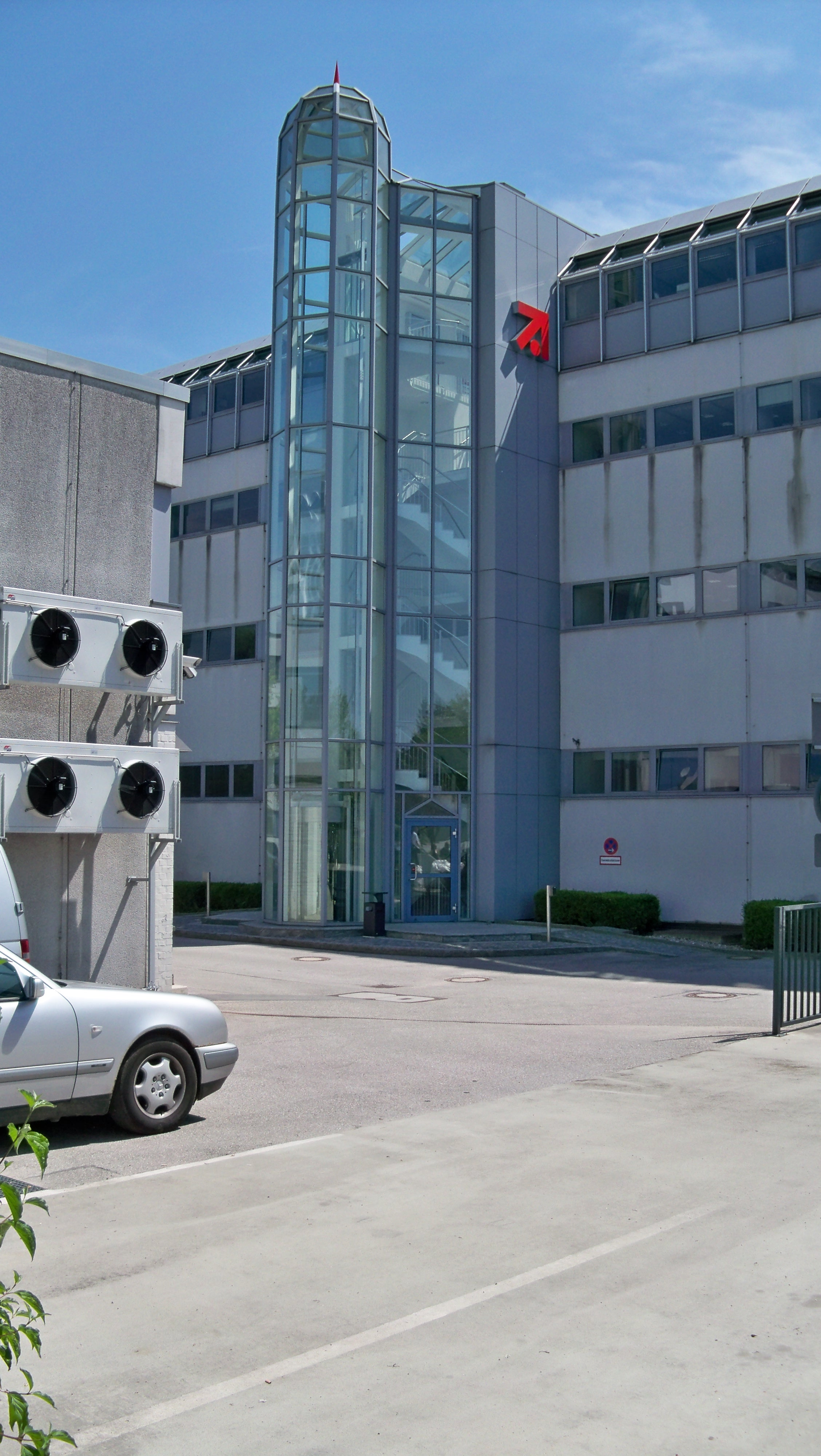 ProSiebenSat.1 Media (detail) in Unterföhring, Germany.